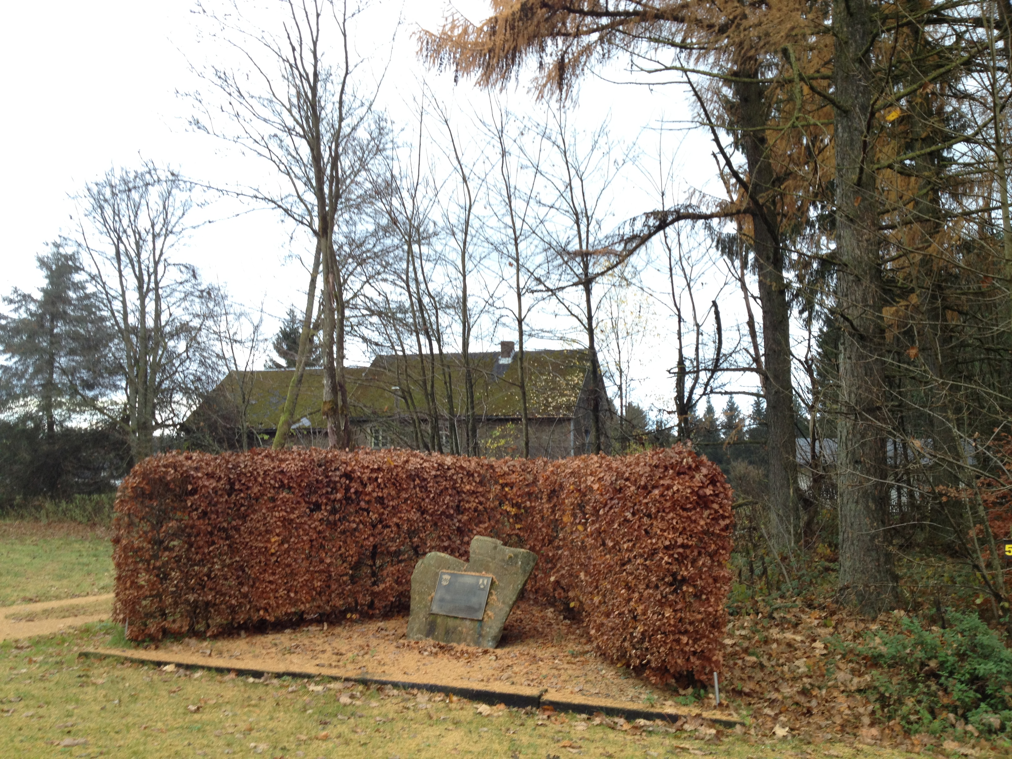 394 Infantry Regiment Presidential Unit Citation at Losheimergraben for Battle of the Bulge